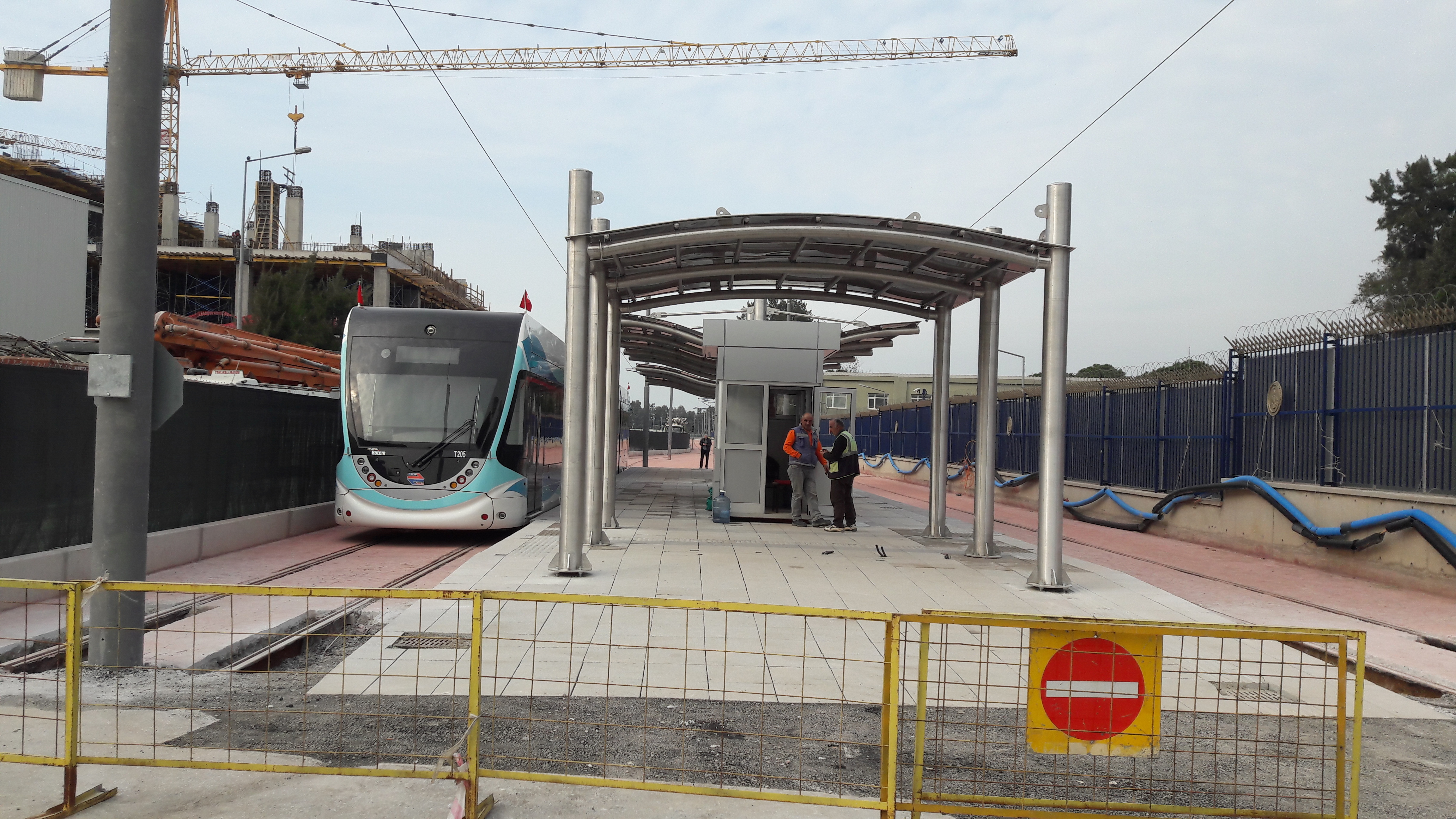 A tram vehicle parked at Fahrettin Altay station.